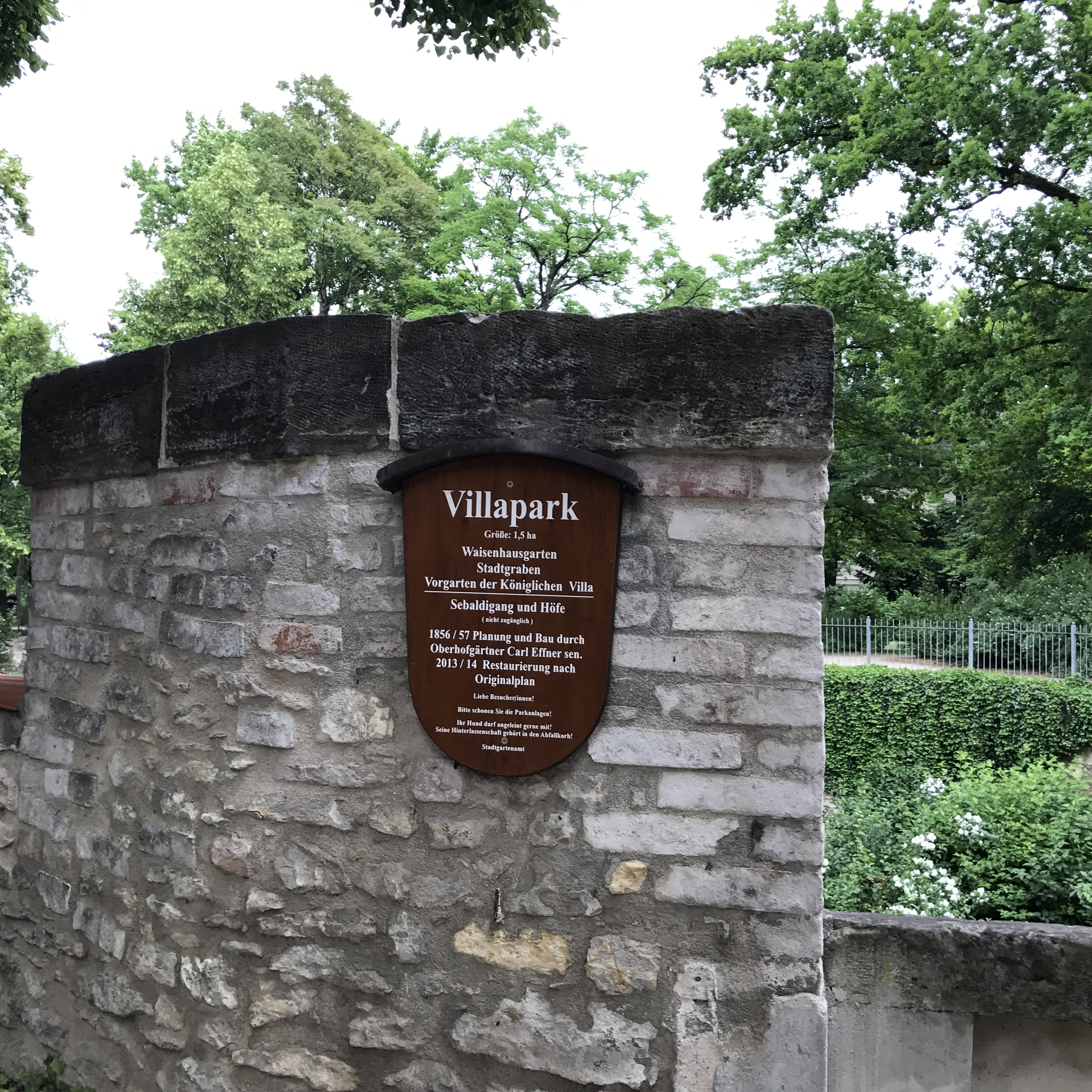 Villapark, Regensburg